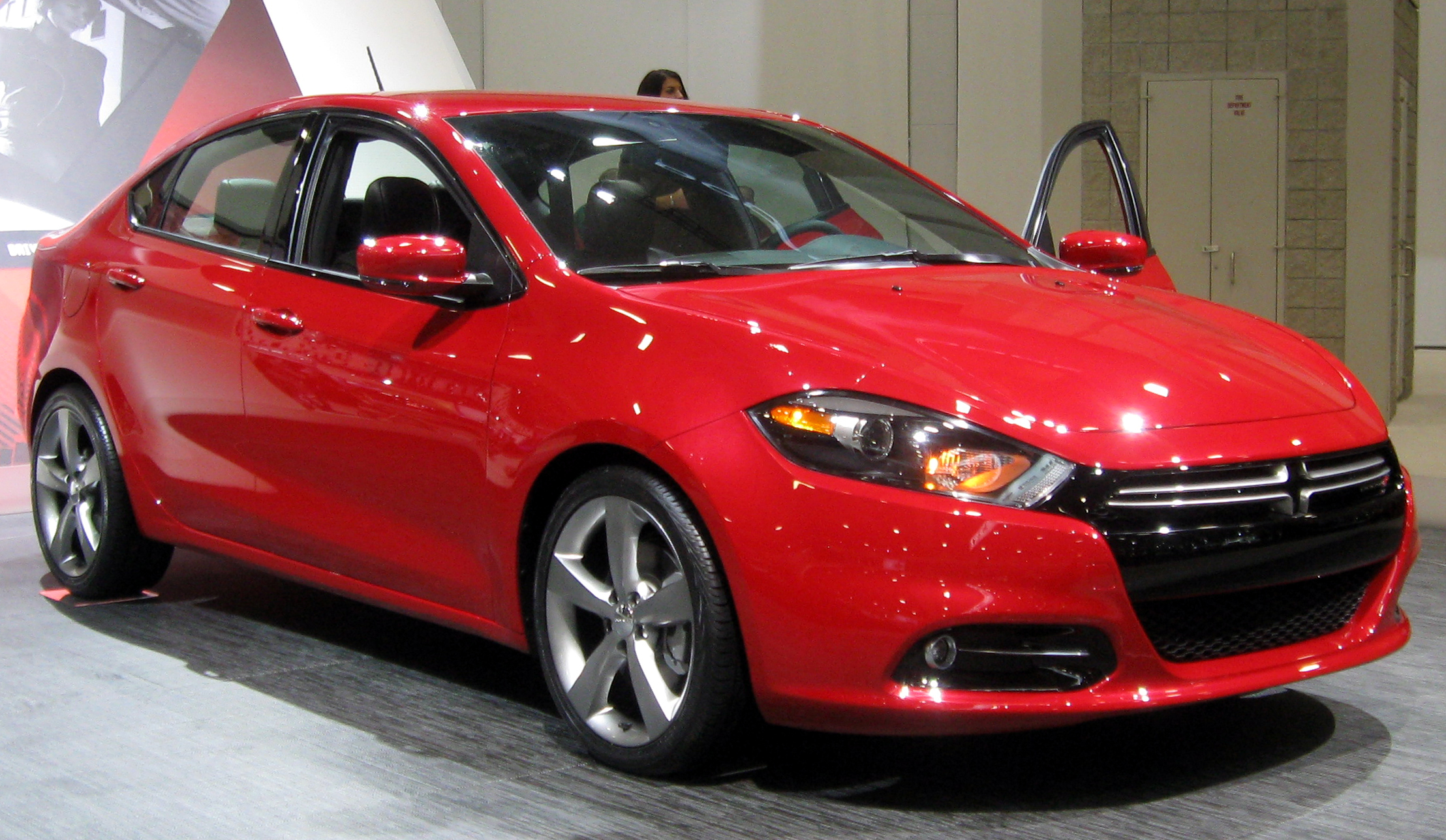 2013 Dodge Dart photographed in Washington, D.C., USA.